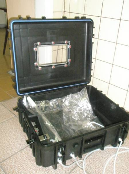 Odour_Sampling_5